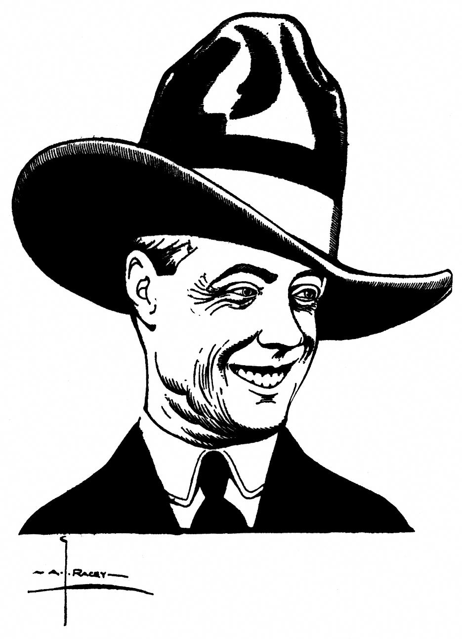 HRH The Prince of Wales